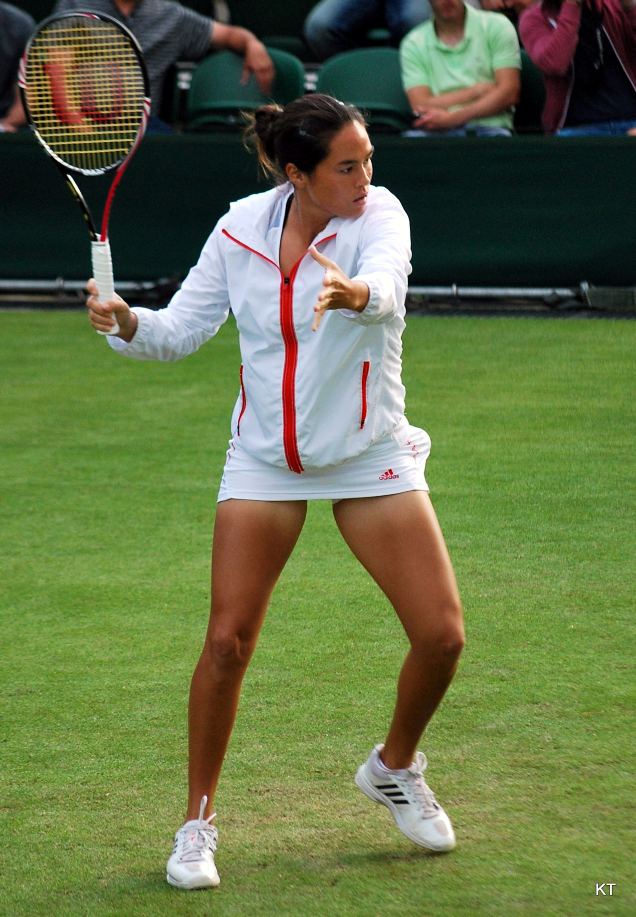 Jamie Lee Hampton during her first round match with Daniela Hantuchova Jamie won 6-4, 7-6, but was beaten by Heather Watson in the next round. Day 1 of Wimbledon 2012.